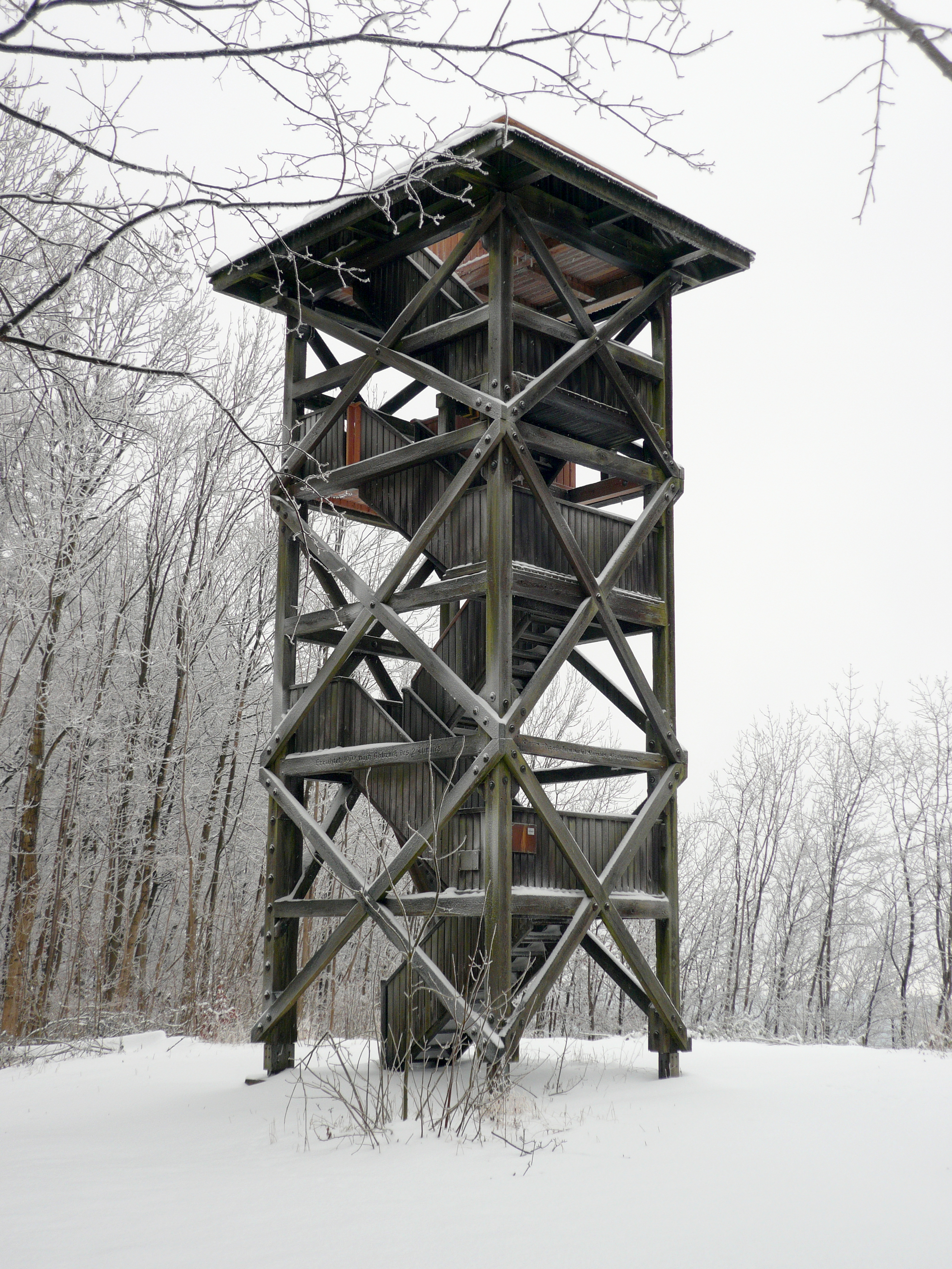 Panorama tower on Mackenroeder Spitze near Goettingen